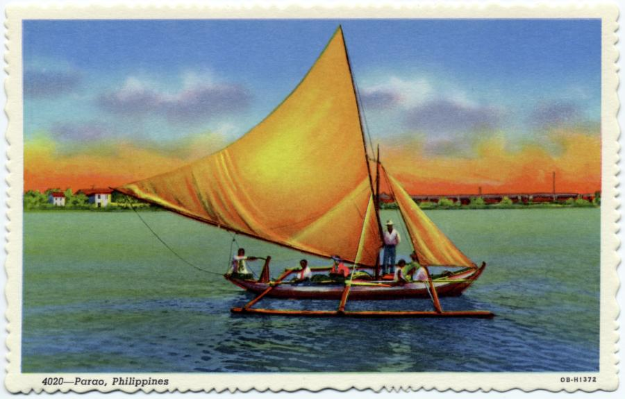 Parao postcard from the Philippines (1940)